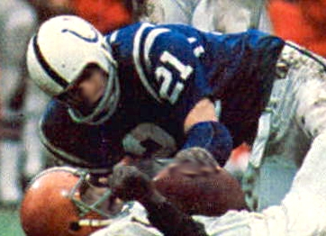 Baltimore Colts safety Rick Volk pictured tackling Cleveland Browns' running back Leroy Kelly during the 1971 AFC Divisional Playoffs Game.